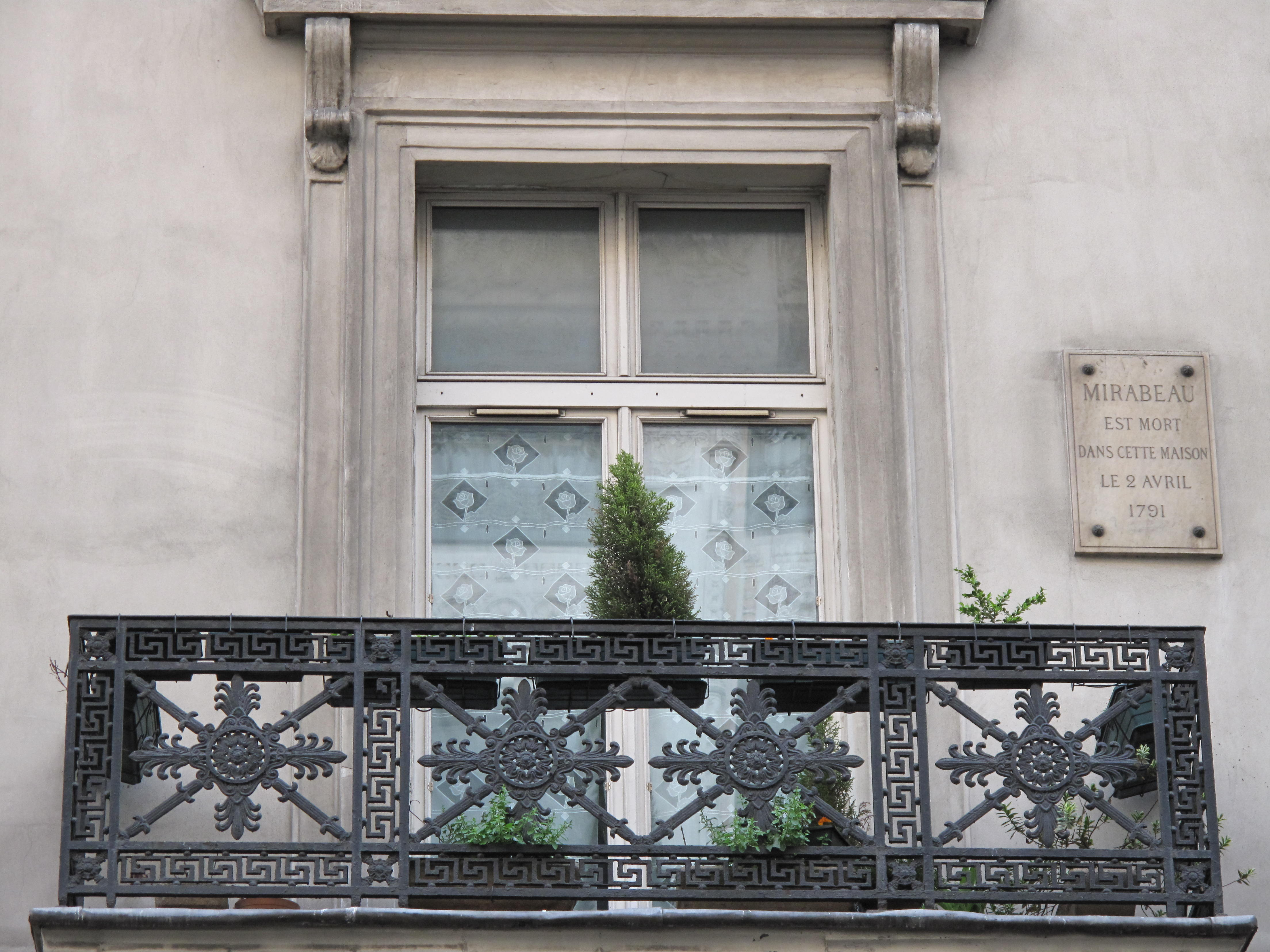 Plaque on the house where Mirabeau died ; 42, rue de la Chaussée d'Antin, Paris